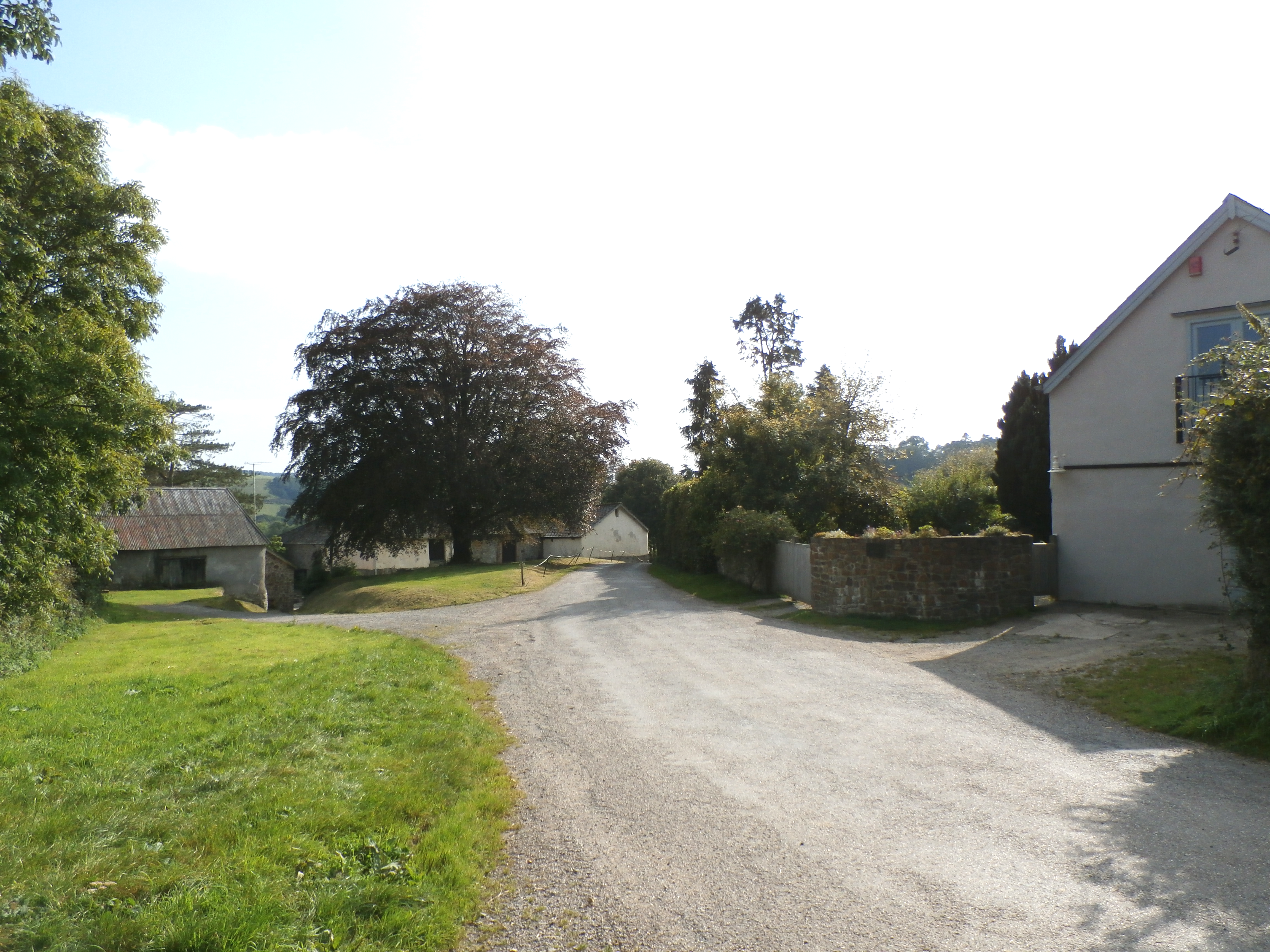 Grilstone in the parish of Bishop's Nympton, Devon, passing through on the public highway. Historic home of Sir Lewis Pollard (d.1526) a Justice of the Common Pleas and a Member of Parliament for Totnes in 1491.